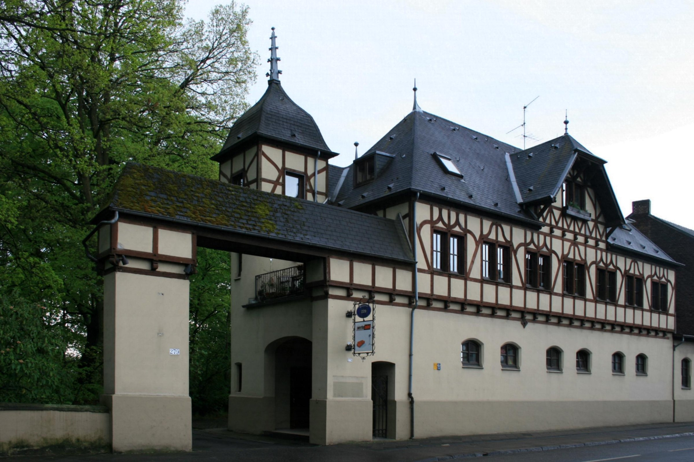 Cultural heritage monument No. R 021 in Mönchengladbach